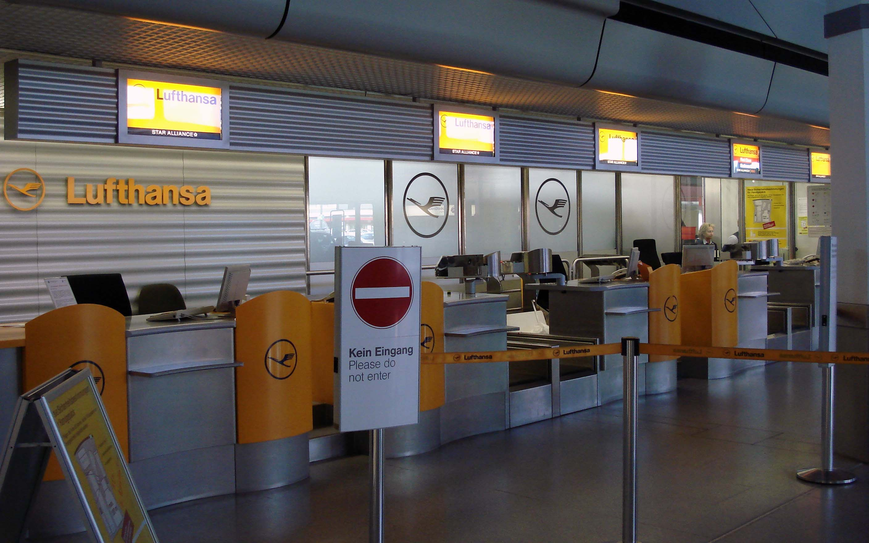 A row of Lufthansa check in counters at Airport Berlin-Tegel